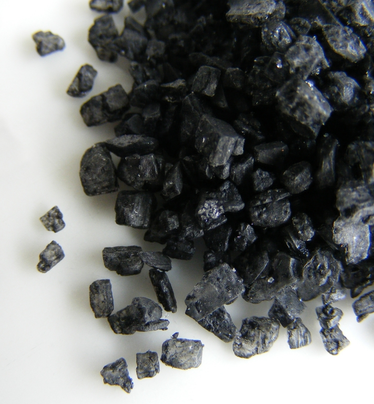 Black salt, a type of volcanic halite